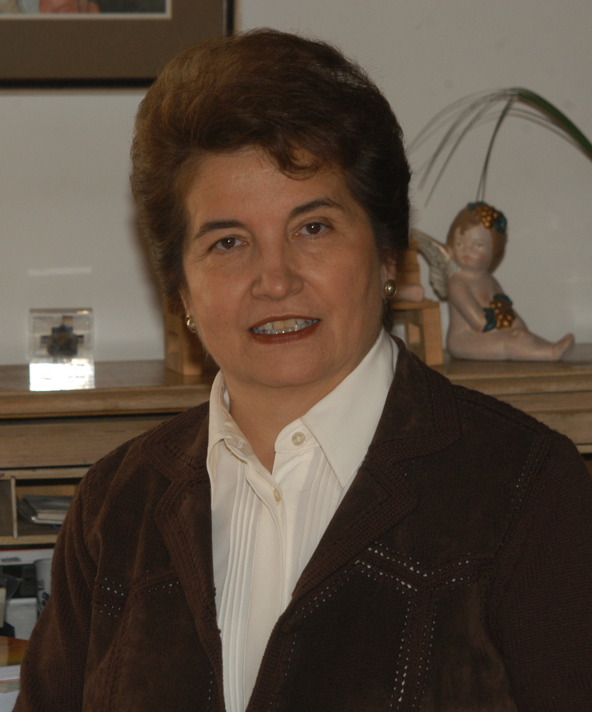 Photograph of Ana Maria Romero de Campero, Human Rights Ombusdwoman of Bolivia